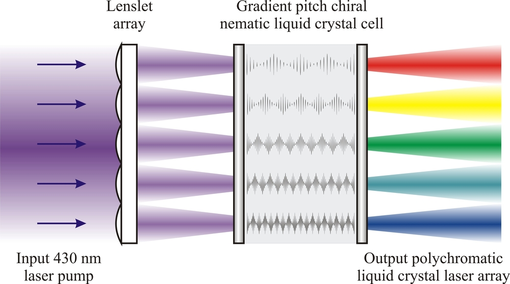 How LCL works.